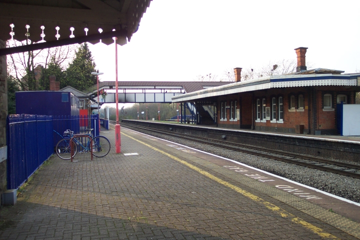 Tilehurst railway station buildings and footbridge. For more information see the Wikipedia article Tilehurst railway station.